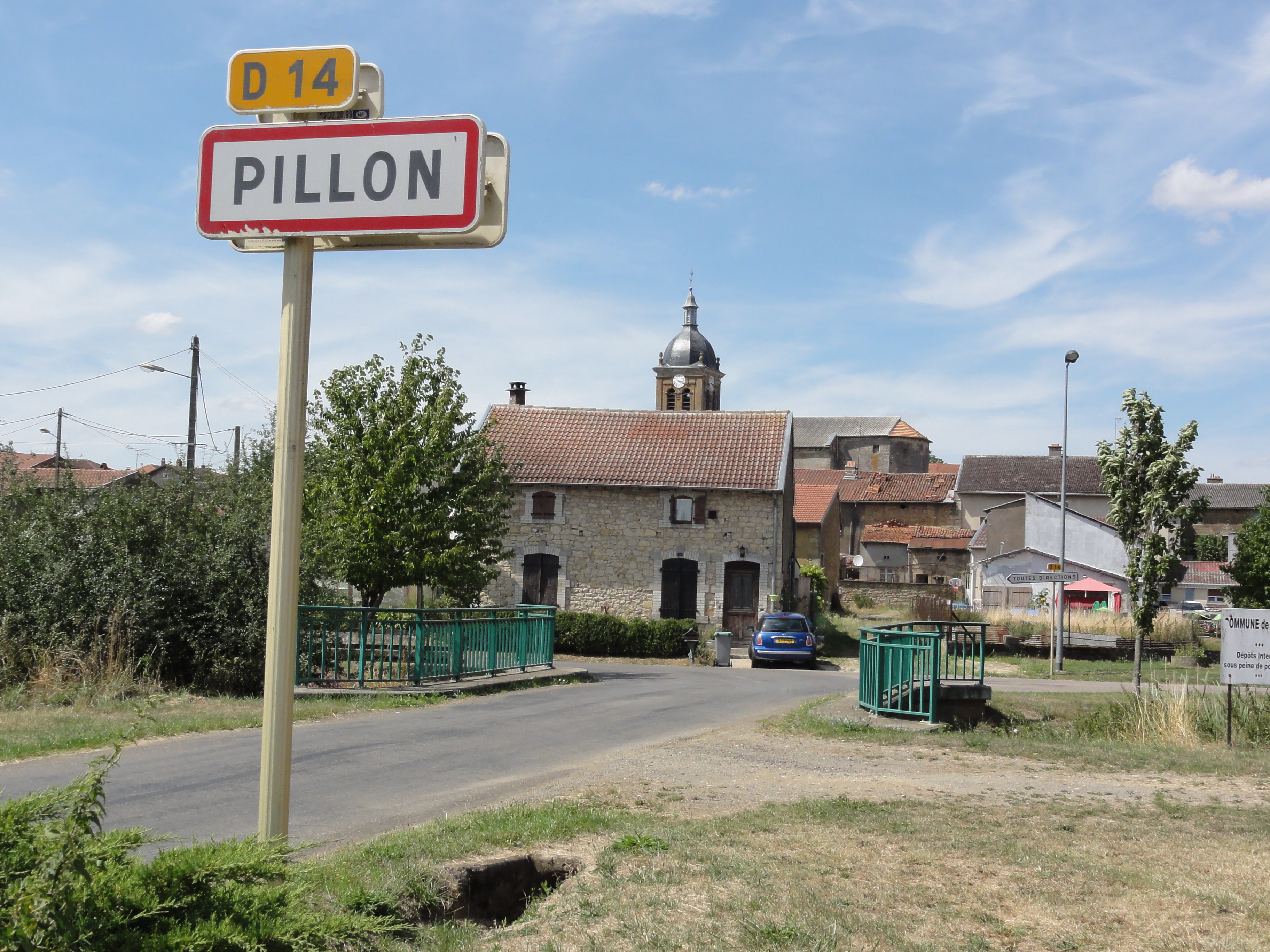 Pillon (Meuse) city limit sign